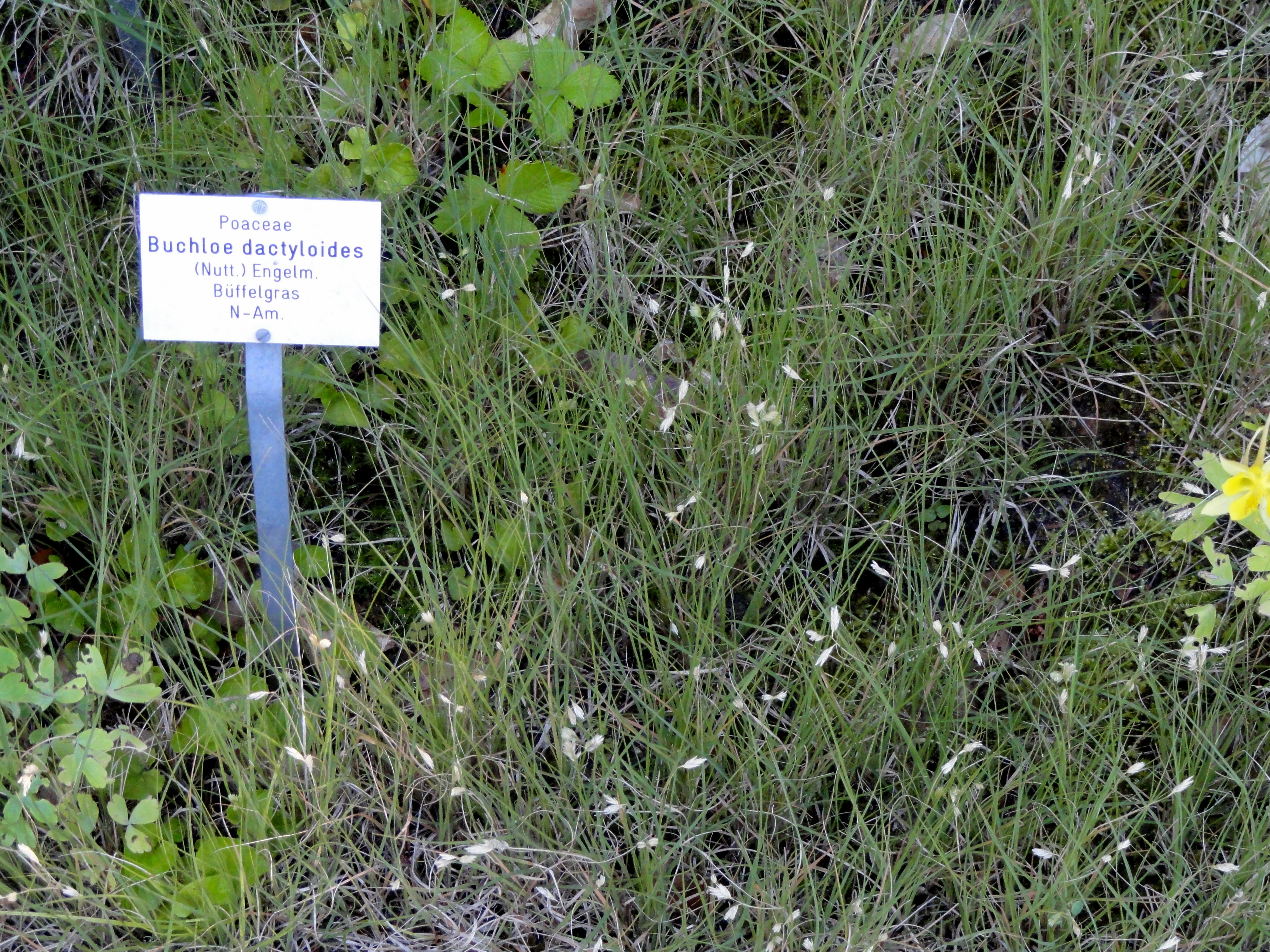 Botanical specimen in the Botanischer Garten, Frankfurt am Main, located at Siesmayerstraße 72, Frankfurt am Main, Germany.